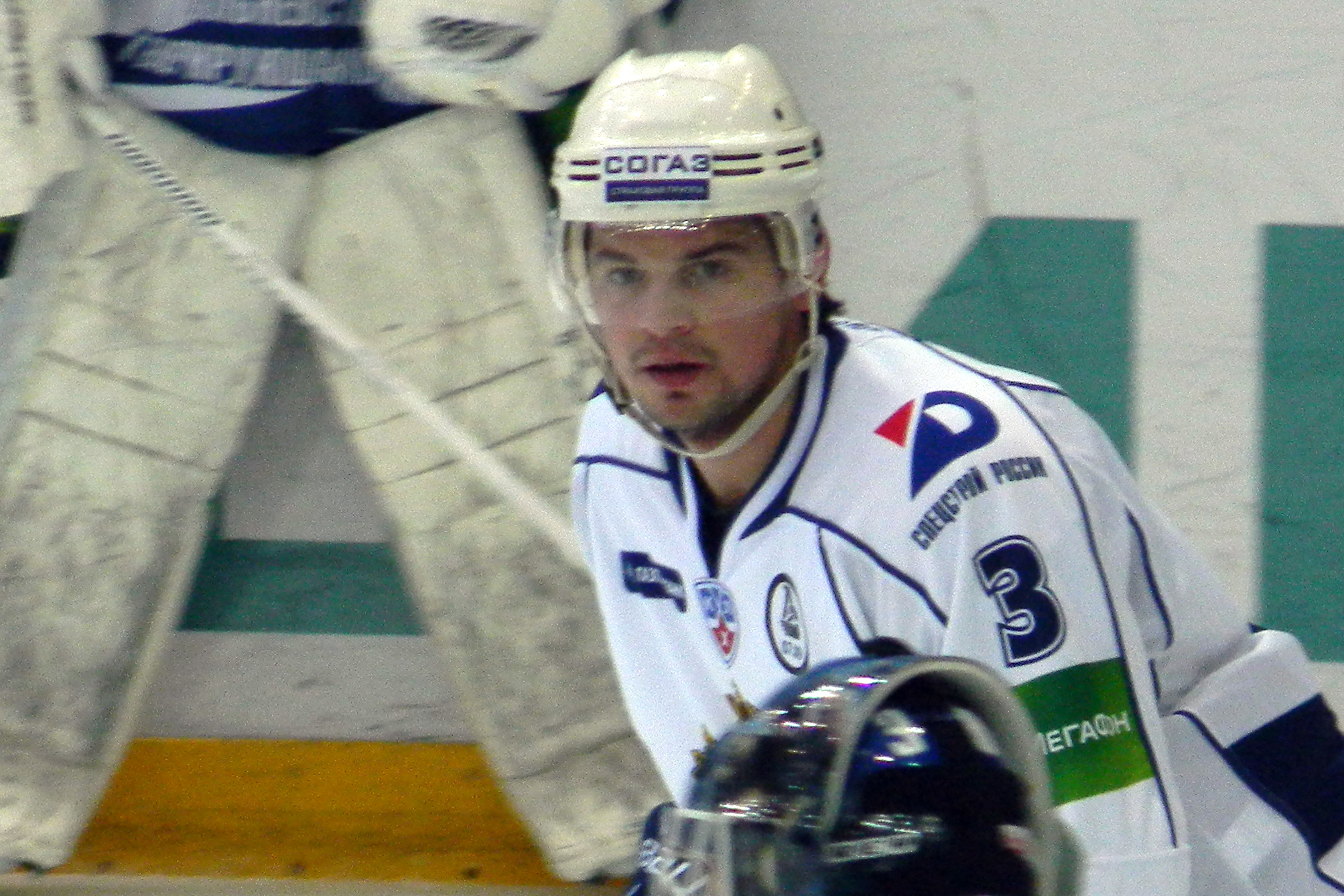 Denis Grot, an ice hockey player from Amur Khabarovsk